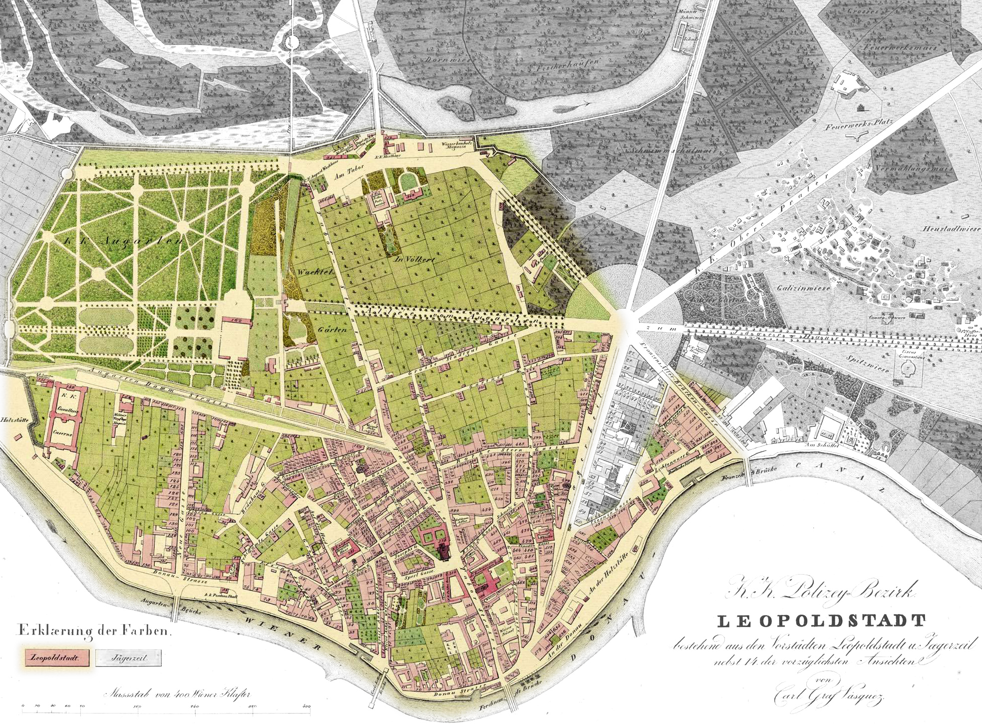 Map of Vienna / Leopoldstadt, approx. 1830